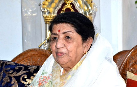 Lata Mangeshkar at an event where she was honoured by Raj Thackeray